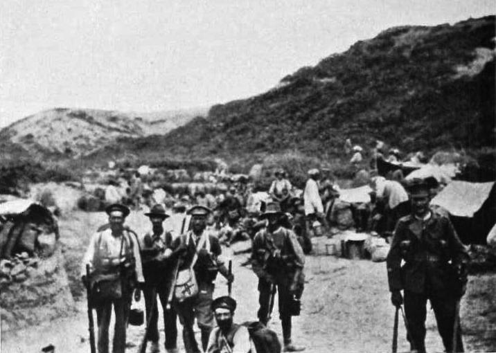 After the heavy fighting at Chunuk Bair. Some of the remnants of the W.M.R. moving from Anzac to Hill 60